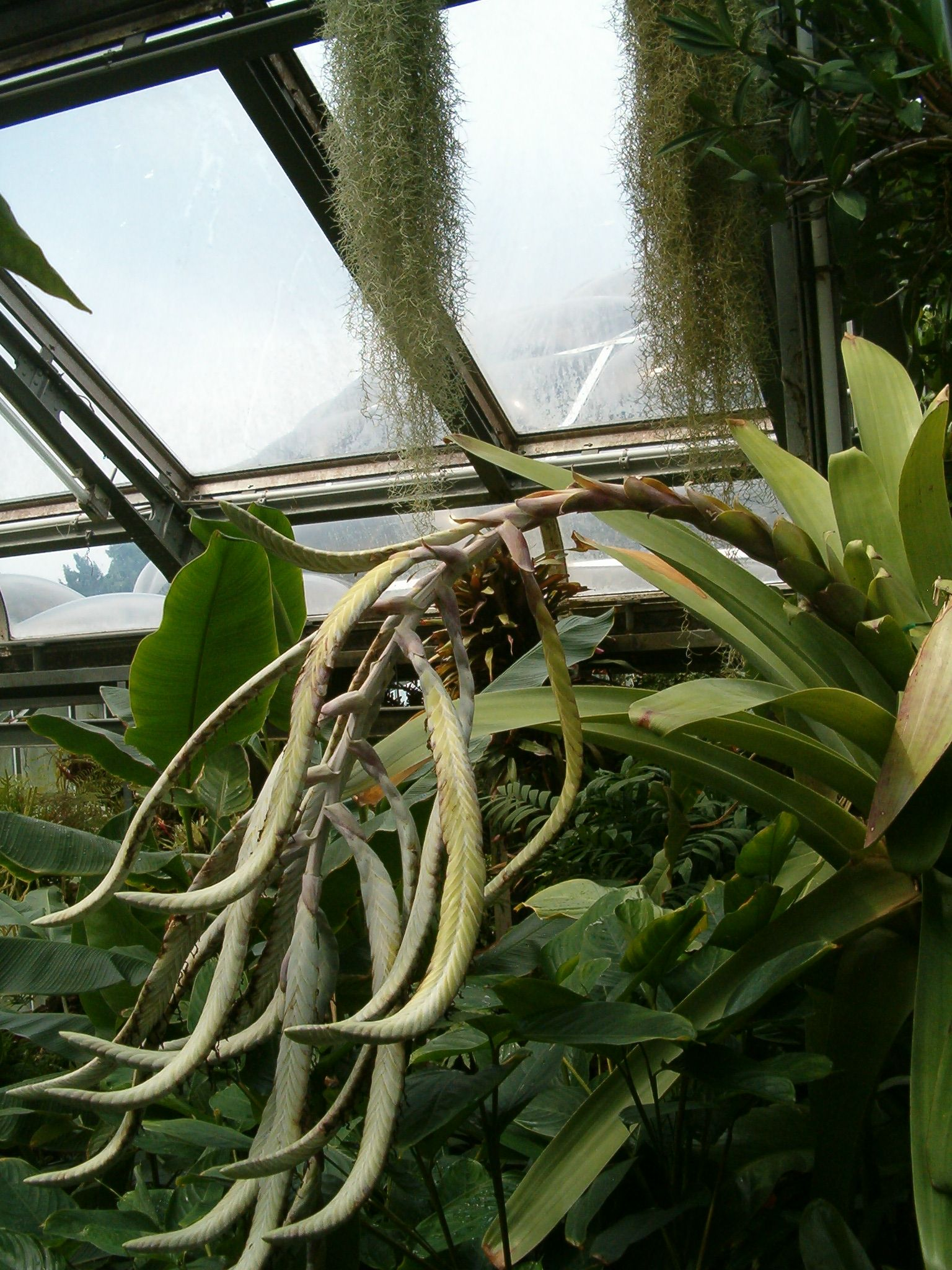 Species Tillandsia rauhii Tillandsia rauhii Inflorescences in the Botanical Gardens Berlin Dahlem